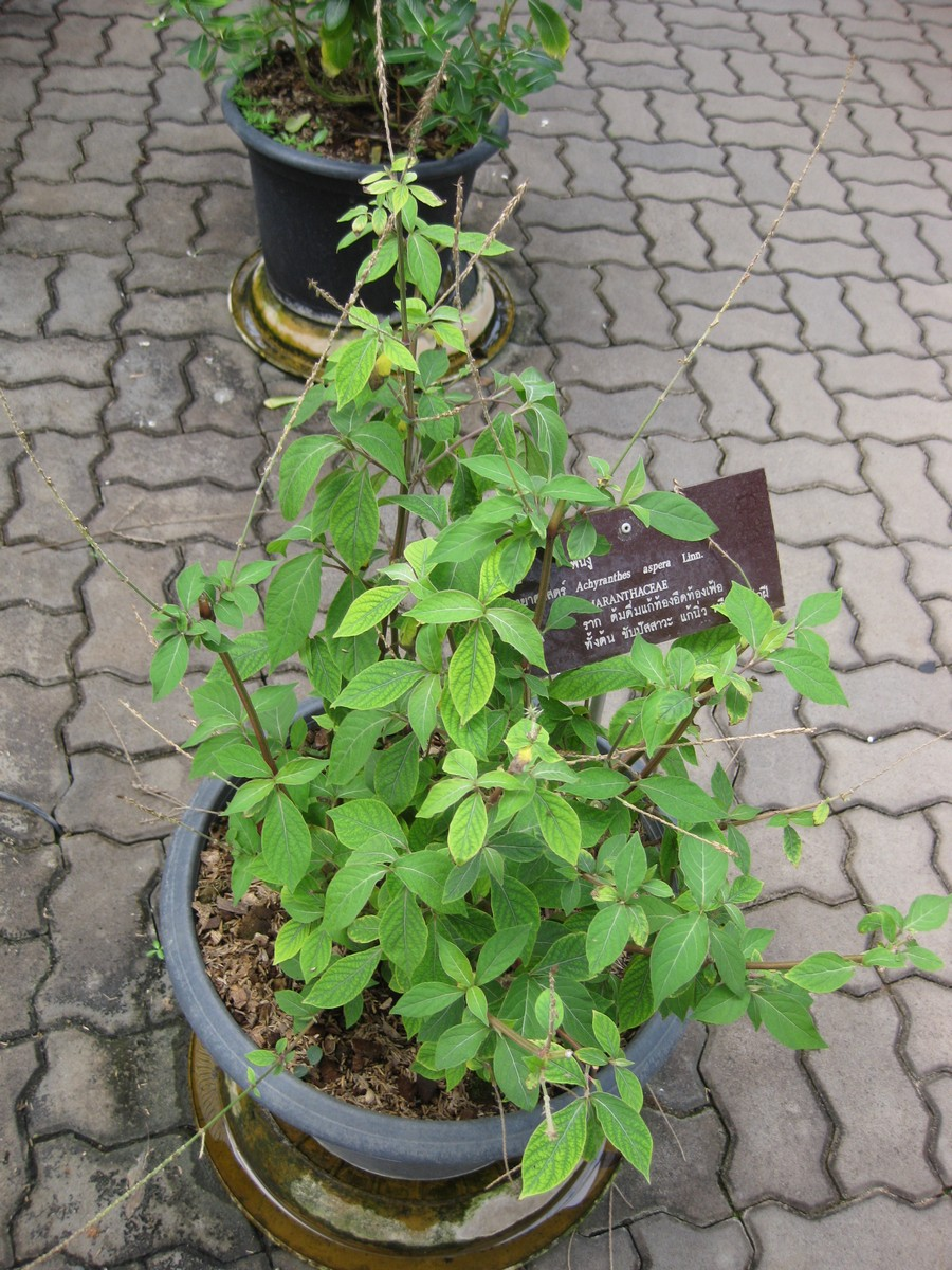 Achyranthes aspera L. Photographed at the Queen Sirikit Botanic Garden (Chiang Mai Province, Thailand) in March